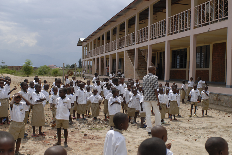 The Charlemagne School in Burundi.